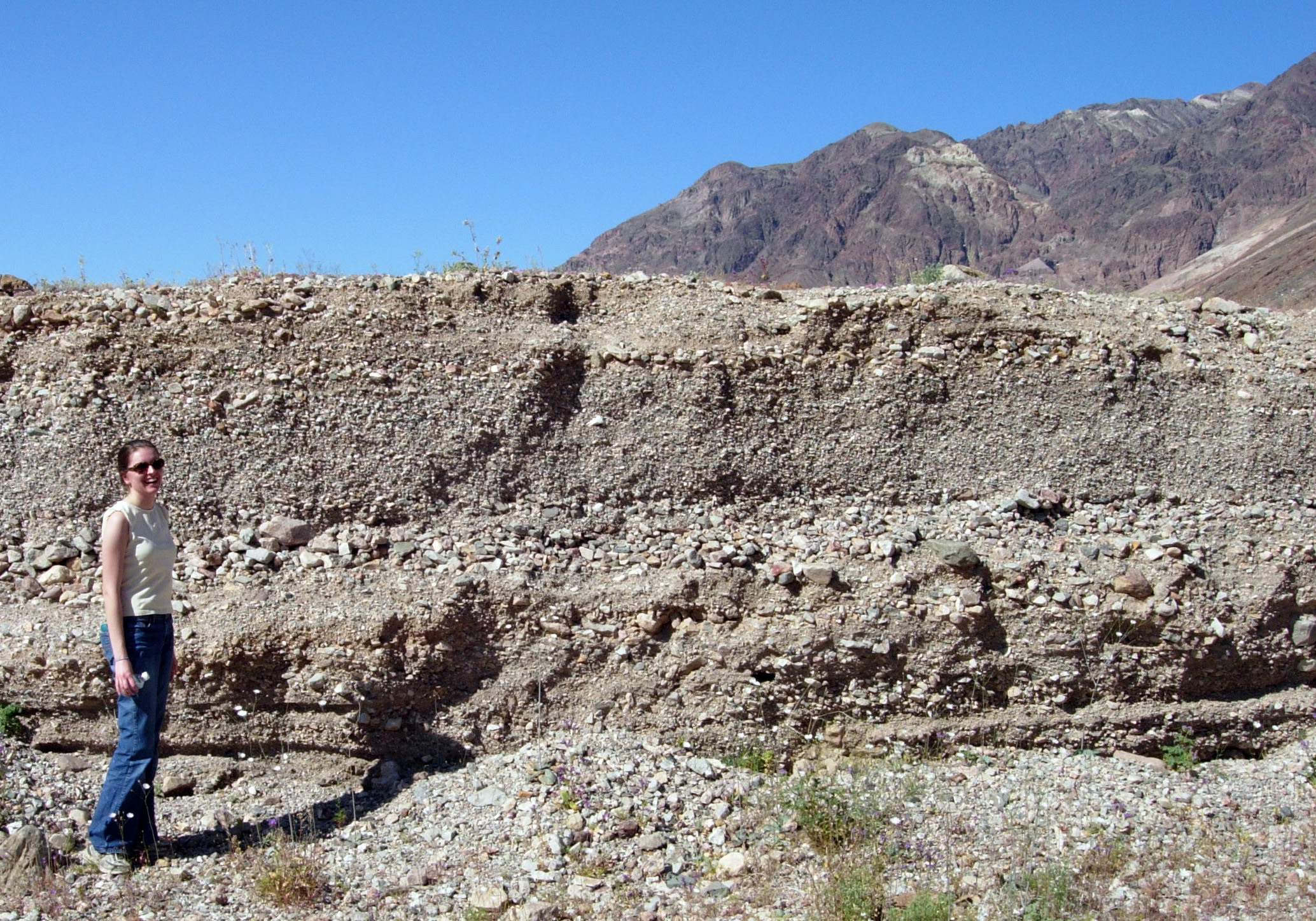 Wadi sediments in Death Valley, California.